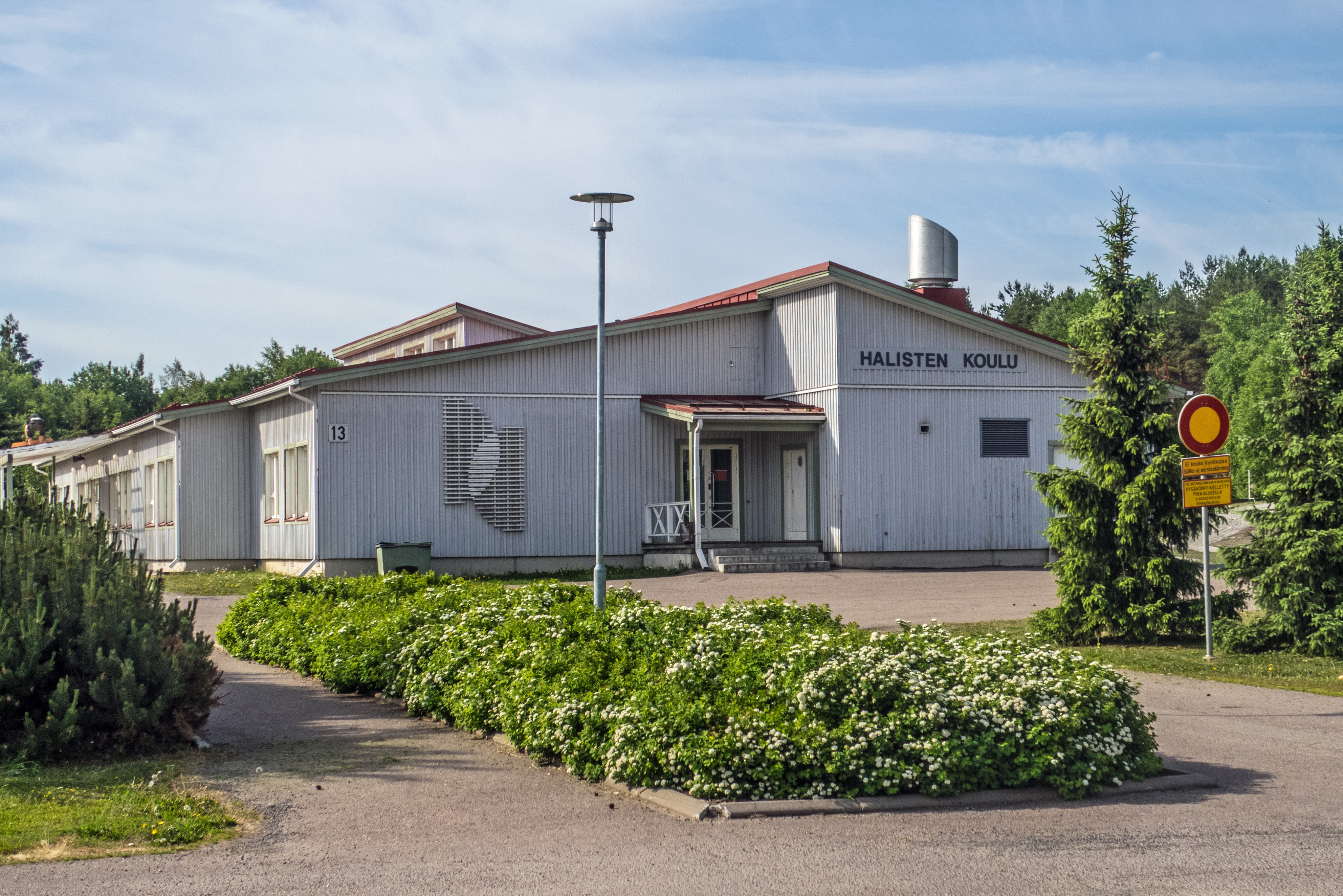 Halisten koulu, elementary school